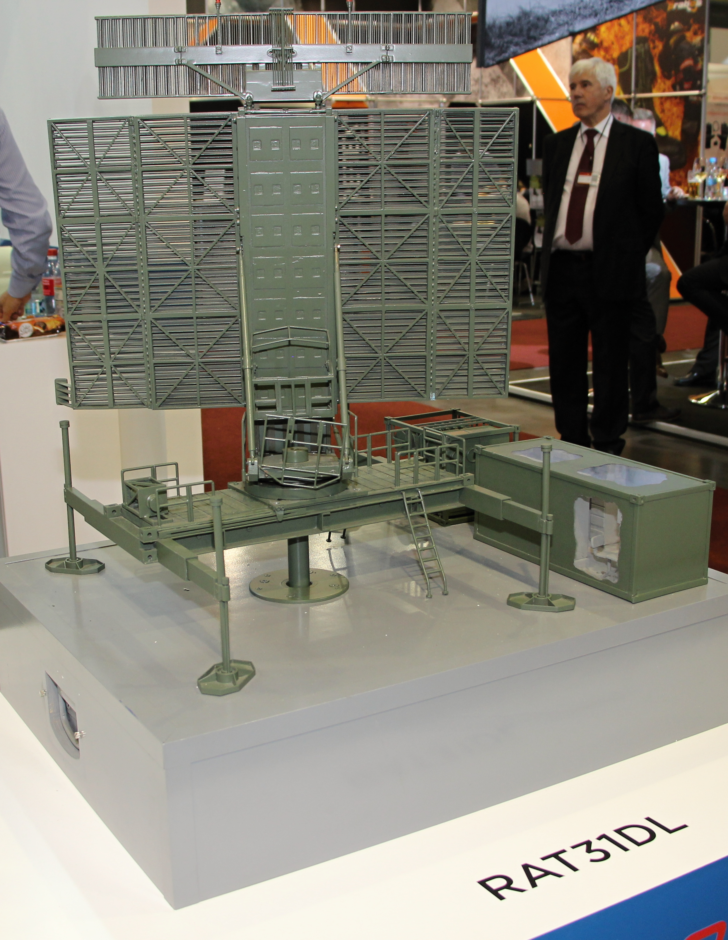 Selex RAT-31DL/M is a long-range air surveillance radar manufactured by Leonardo derived from the stationary FADR version. IDET 2017, Brno Exhibition Center, Czech Republic.